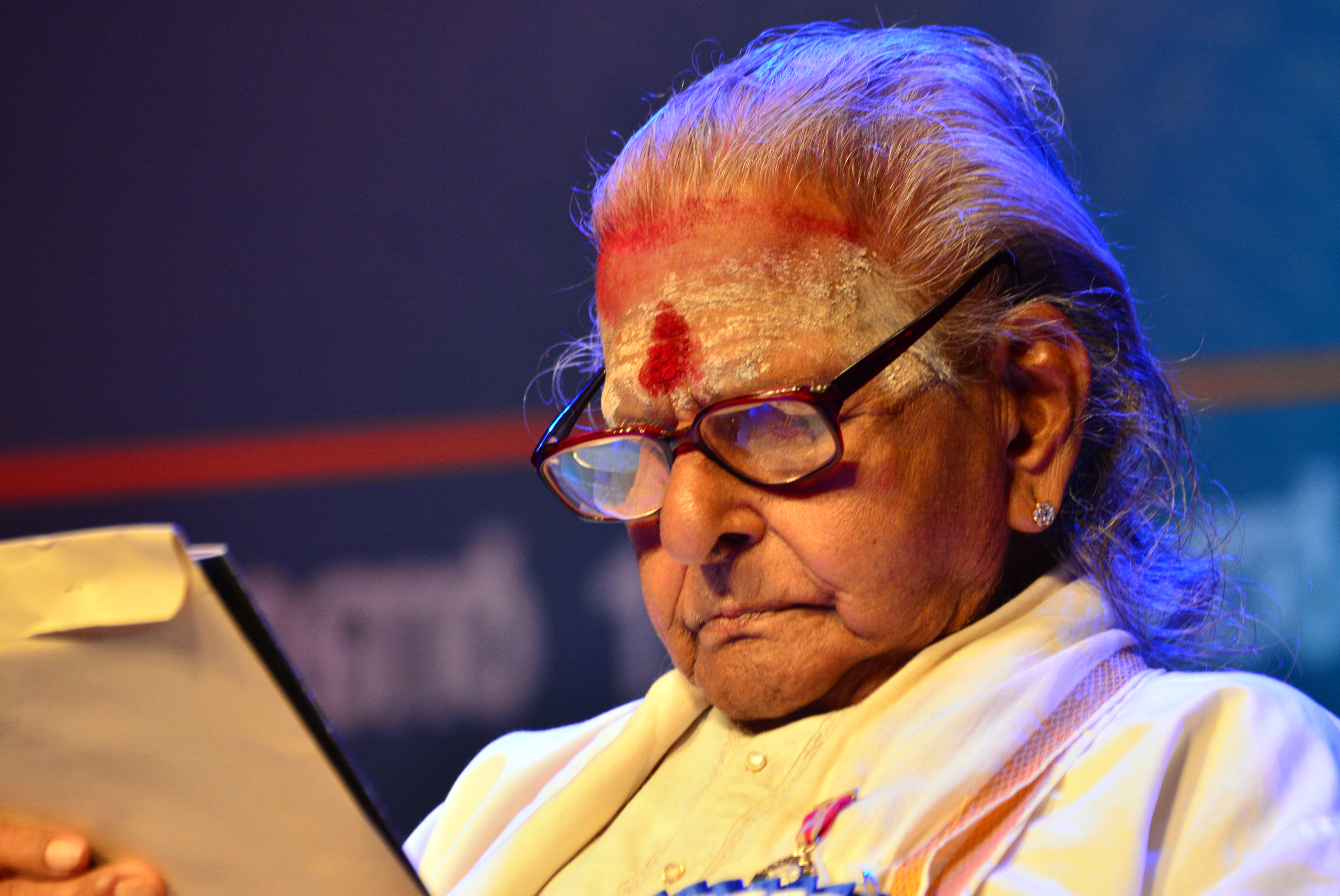 Chemancheri Kunhiraman Nair is a renowned Kathakali artist from Chemancheri. He completed 95 years in 2013. He spent the last eighty years in learning Kathakali and teaching it. He has done the role of Krishna alone more than a thousand times. The Government of India awarded him the fourth highest civilian honor of the Padma Shri in 2017